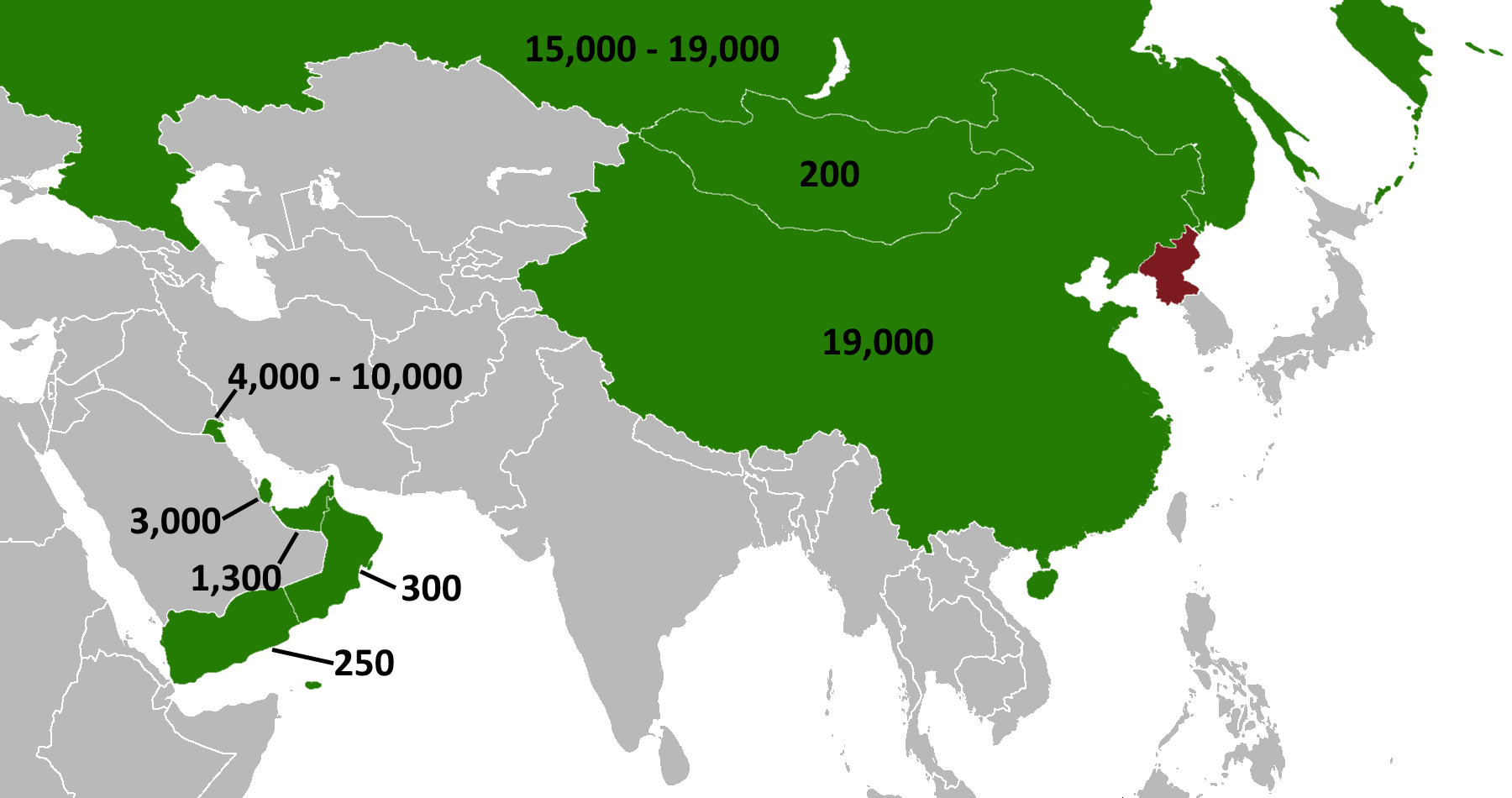 Map portraying Asian countries by known North Korean migrant worker numbers. Data sources: Hanrahan, Mark (8 November 2014). North Korean Laborers In Qatar Working As 'State-Sponsored Slaves' During World-Cup Lead Construction Boom: Report. International Business Times. Retrieved on 7 October 2015. Kim Yong Hun (18 November 2009). Chongryon Feels the Pinch : The Plunging Chongryun – Part 1. . Retrieved on 7 October 2015. Kim Young-jin (15 October 2012). 4,000 N. Koreans working in Kuwait. koreatimes. Retrieved on 7 October 2015. Kovessy, Peter (30 August 2015). North Korean workers in Qatar fired for moonlighting - Doha News. Doha News. Retrieved on 7 October 2015. Kwon, K.J. (15 May 2015). North Korean migrant workers used as slaves. CNN. Retrieved on 7 October 2015. Pattisson, Pete (7 November 2014). North Korean 'forced labour' helps to build Qatar’s ambitious future. the Guardian. Retrieved on 7 October 2015. Rosen, Armin (26 July 2012). The Strange Rise and Fall of North Korea's Business Empire in Japan. The Atlantic. Retrieved on 7 October 2015. Sang-Hun, Choe (19 February 2015). North Korea Exports Forced Laborers for Profit, Rights Groups Say. . Retrieved on 7 October 2015. Song Jiyoung (28 June 2013). The Complexity of North Korean Migration. . Retrieved on 7 October 2015. The Chosun Ilbo (English Edition): Daily News from Korea - N.Korean Workers Brave Hard Times in UAE. (25 December 2009). Retrieved on 7 October 2015. Who We Help. (n.d.). Retrieved on 7 October 2015. This file was derived from: BlankAsia.png